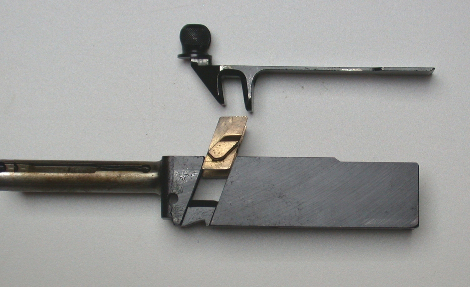 Thompson Model 1921 Bolt components